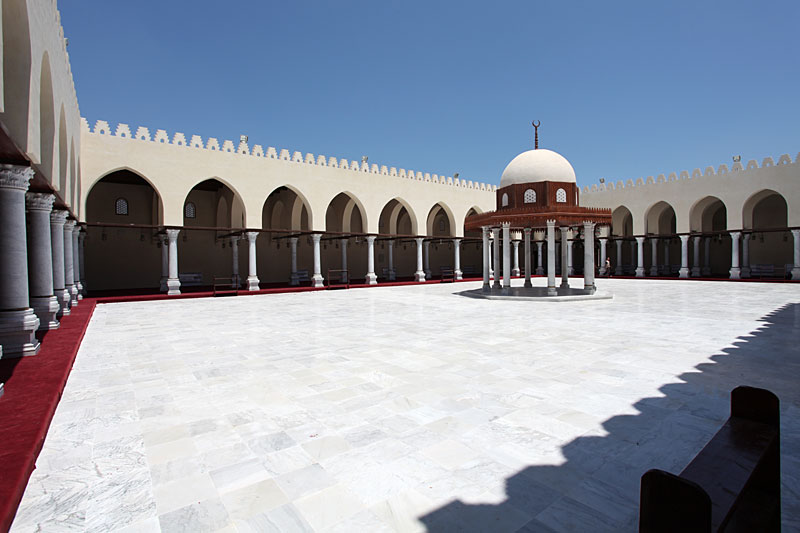 Court, Amr ibn el-'As mosque, Dumyat, Egypt